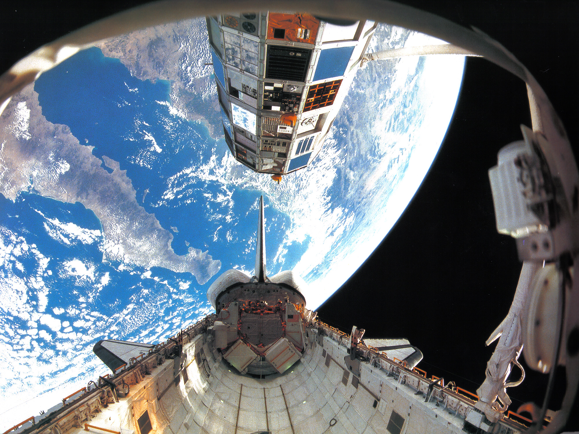 The Long Duration Exposure Facility (LDEF) is lifted over Challenger's payload bay on mission STS 41C.